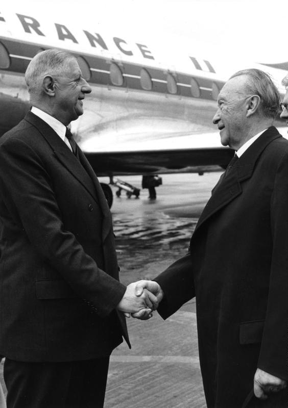 French President Charles de Gaulle meeting German Chancellor Konrad Adenaeur at Cologne airport after disembarking an Air France flight.